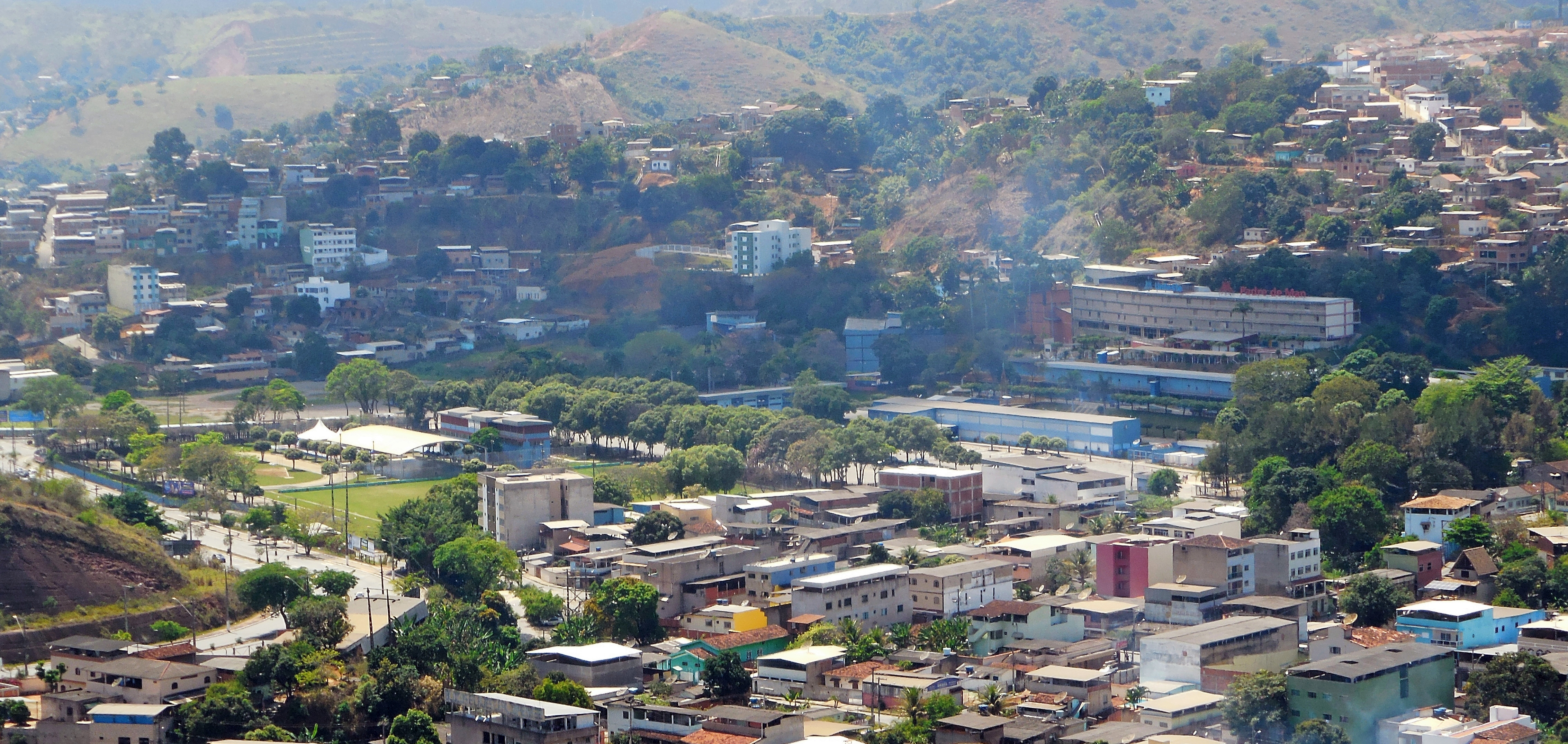 Remote view of the Centro Universitário Católica do Leste de Minas Gerais (Unileste), in Coronel Fabriciano, Minas Gerais, Brazil.